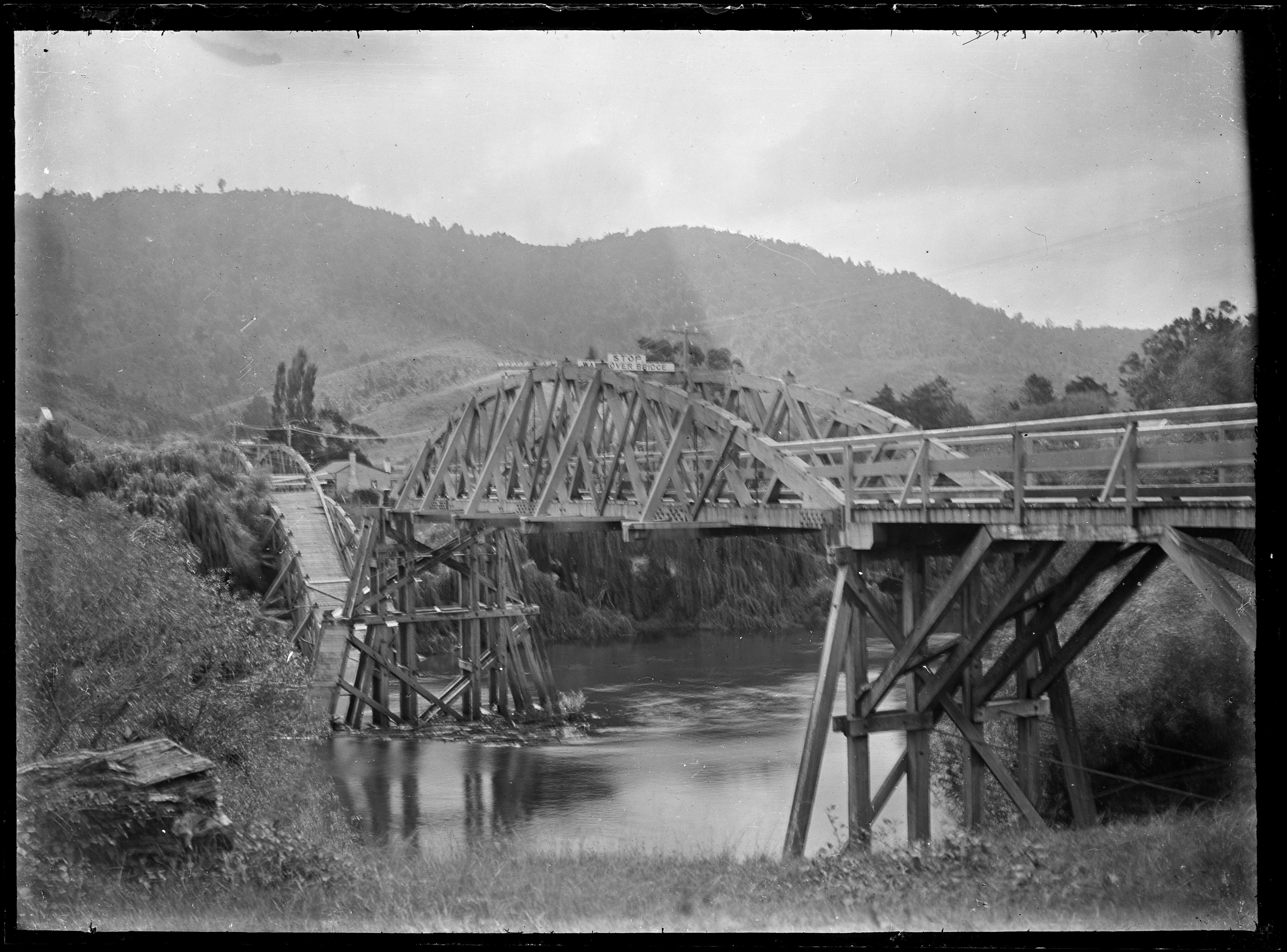 Damaged bridge over the Waipa River, at Ngaruawahia. Photograph taken by Albert Percy Godber in 1917. Dated from other images in the Godber album at Pa1-q-102. There are photographs of people and horses being transported across the Waipa River on a punt, pulled by winch, because the bridge was unable to be crossed having collapsed in 1916.